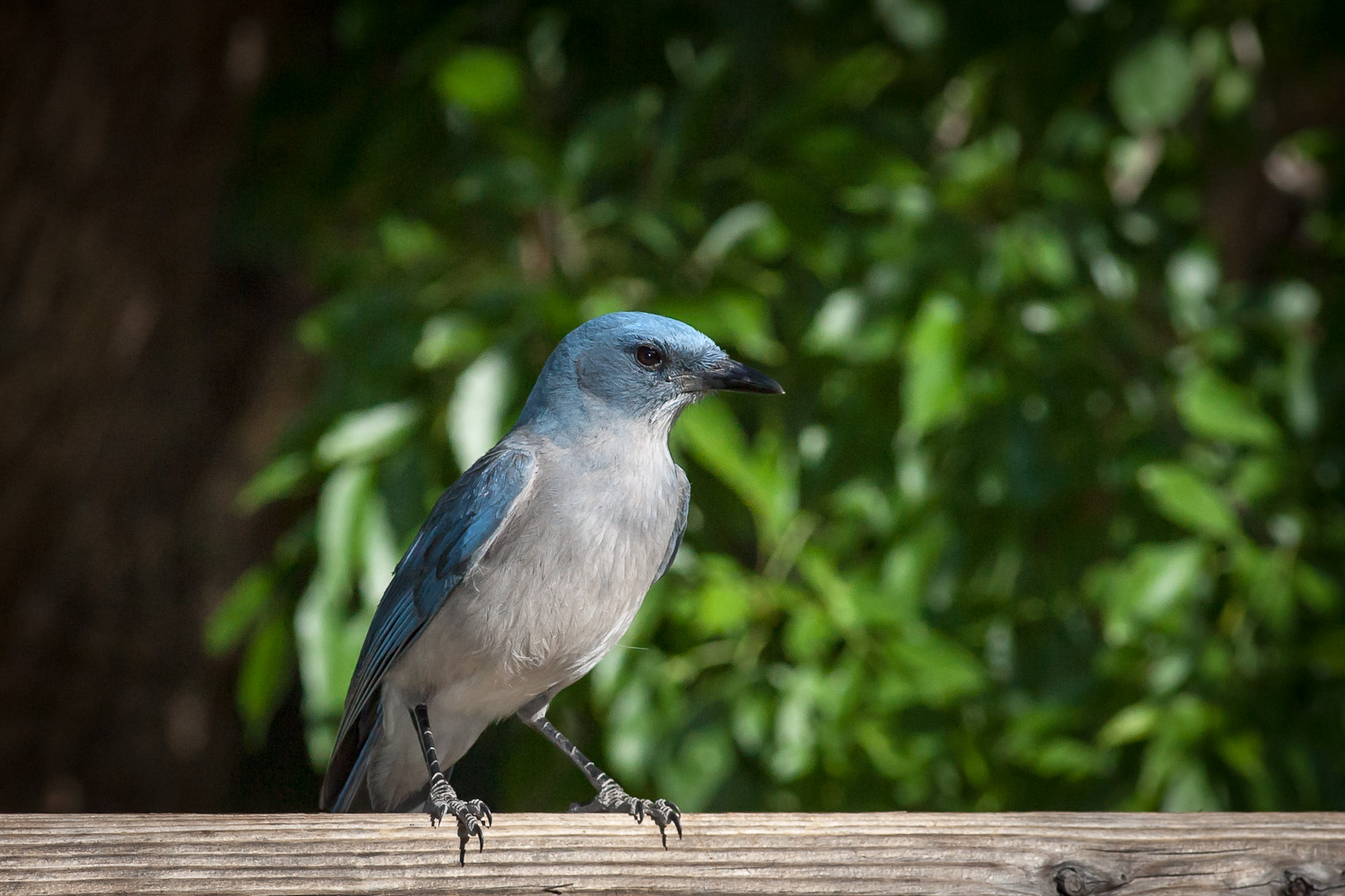 Aphelocoma wollweberi, Madera Canyon, Arizona.